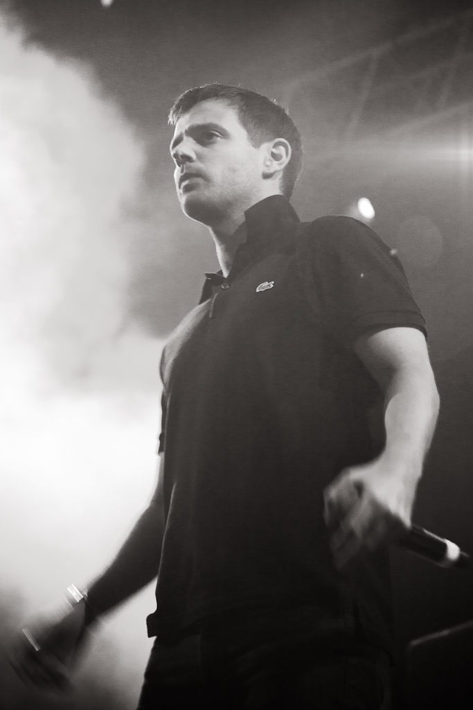 Mike Skinner of The Streets performing live at Parklife, Sydney 2011